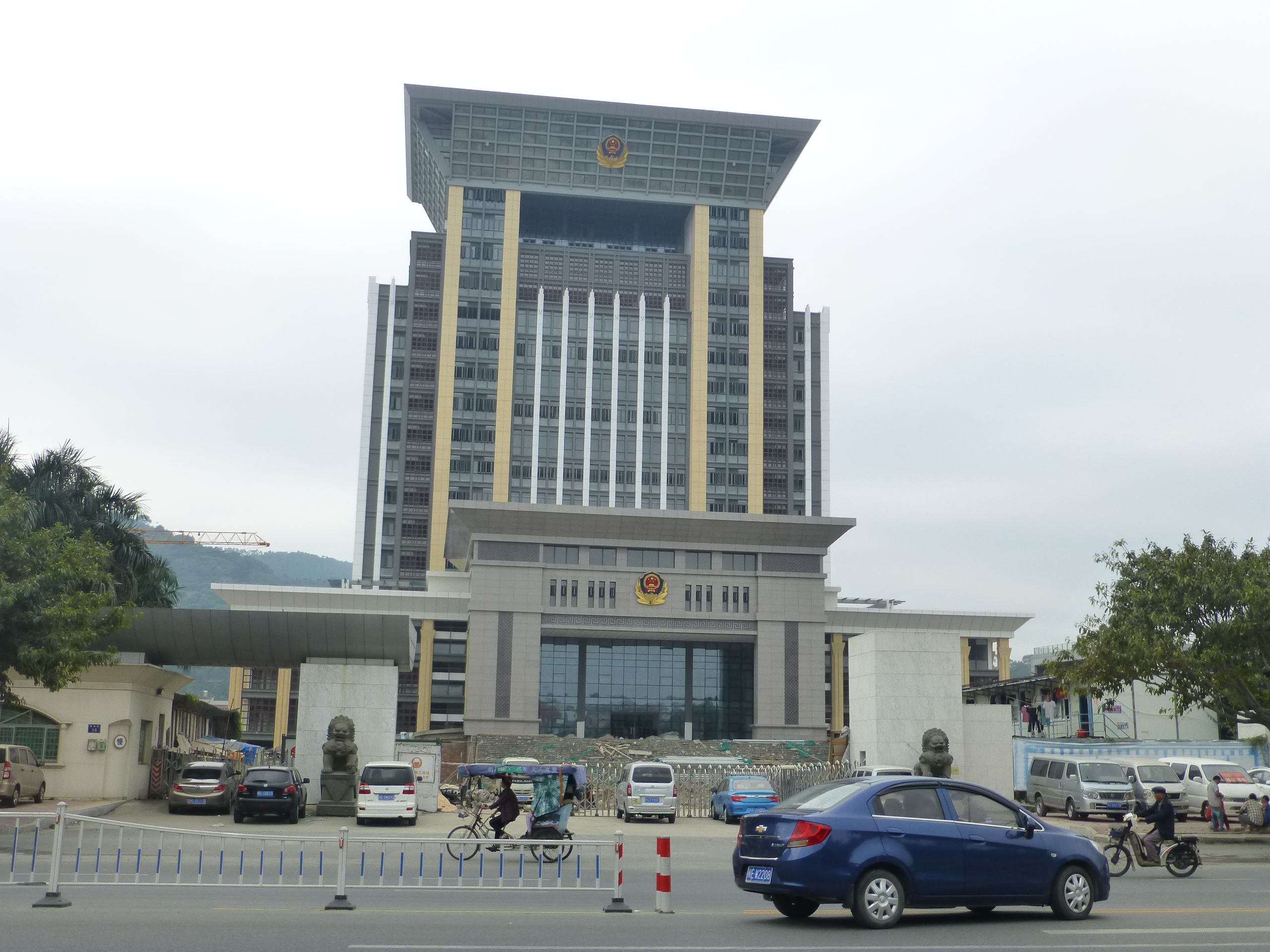 Longhai City, Fujian.